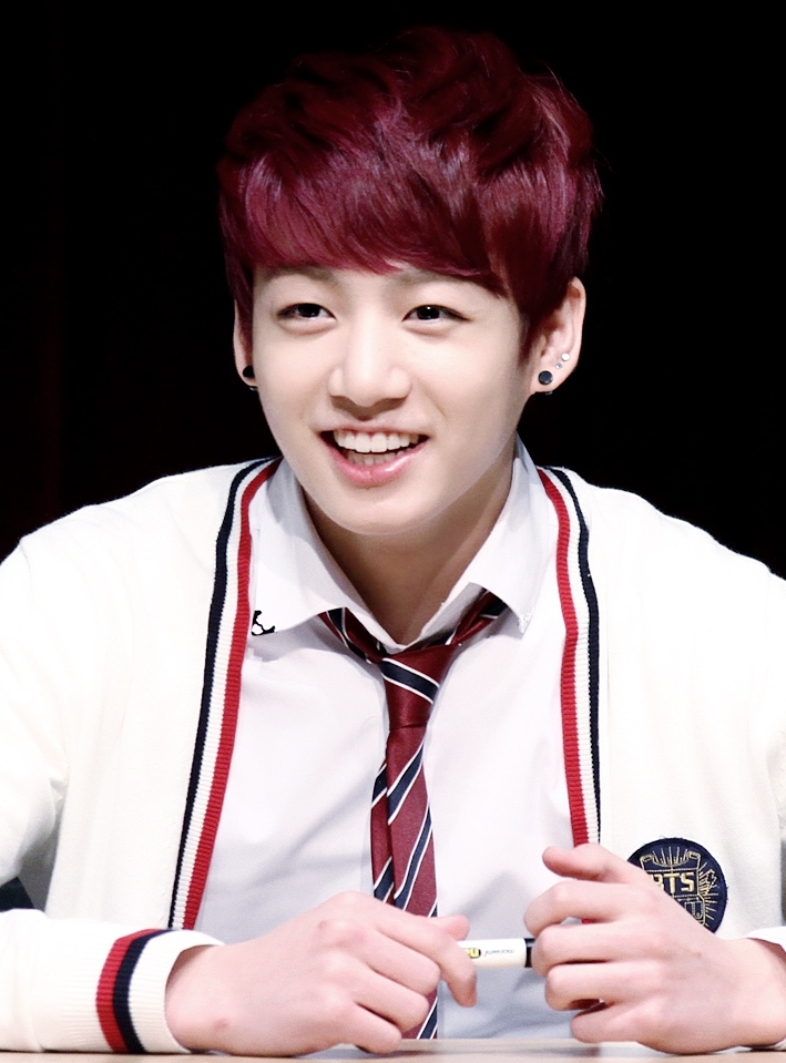 Jungkook at an fanmeeting in Gimpo on April 13, 2014.